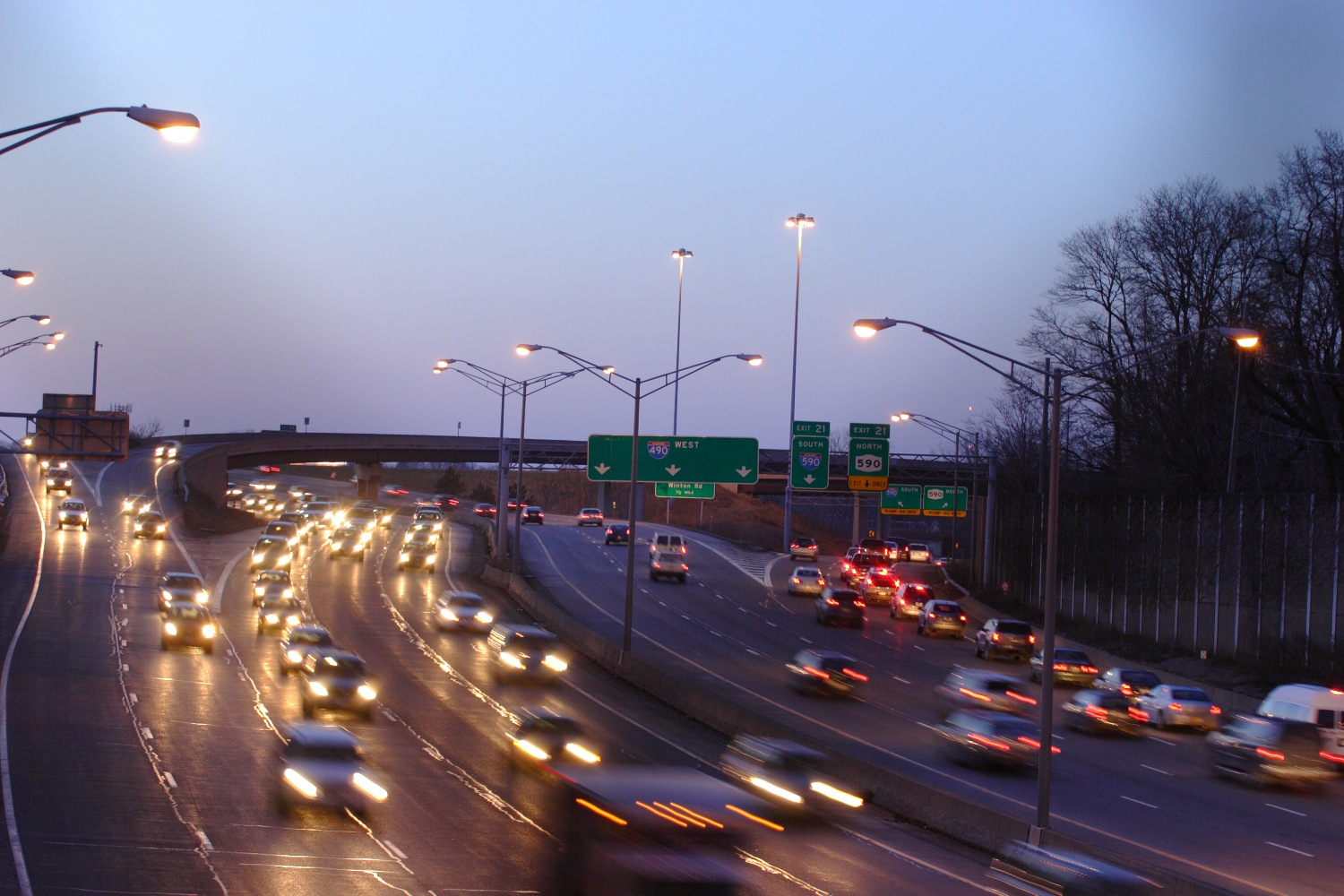 Interstate 490WB at the Can of Worms